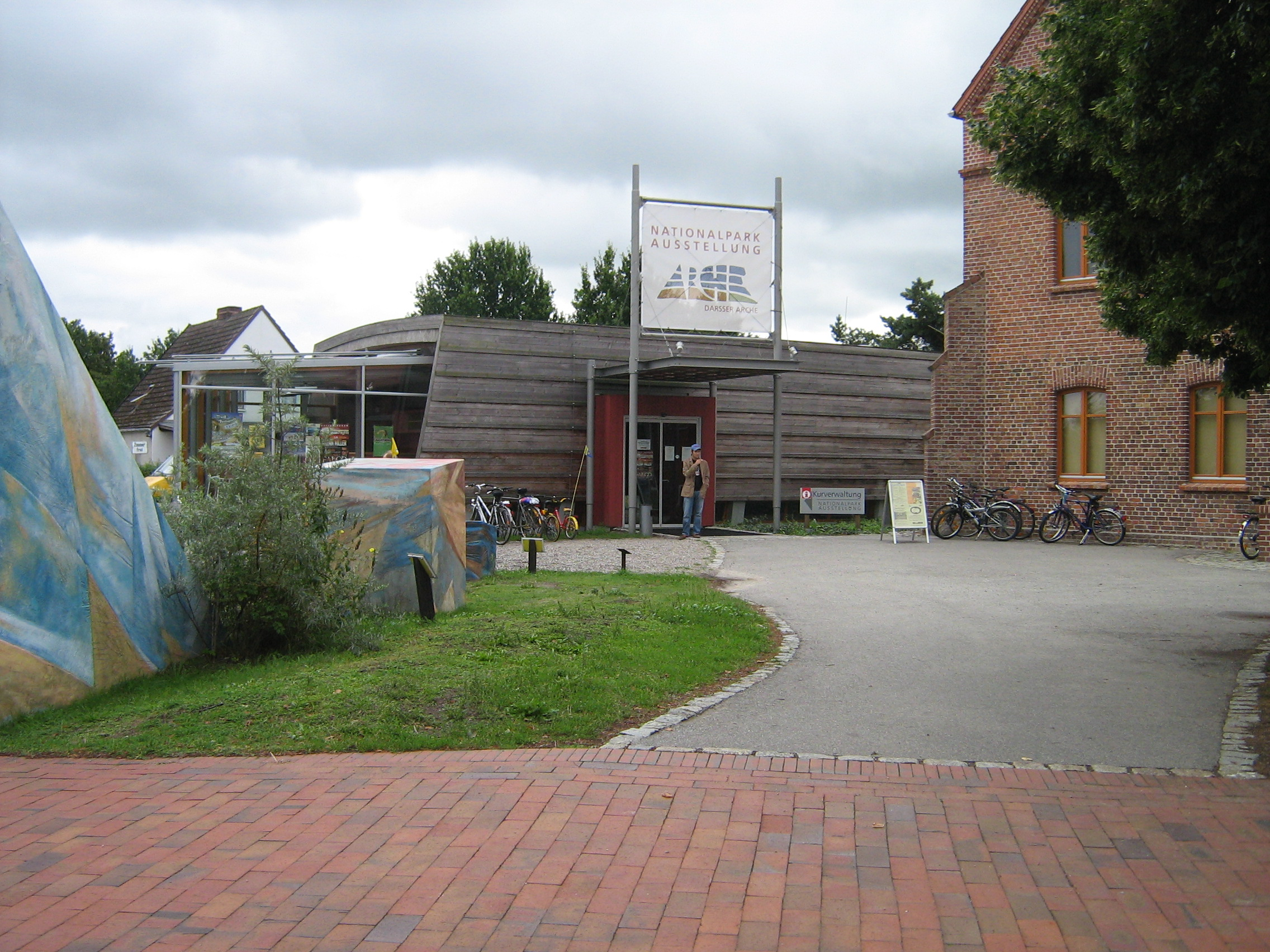 The Nationalpark-Museum Darsser Arche of Wieck a. Darß in Germany